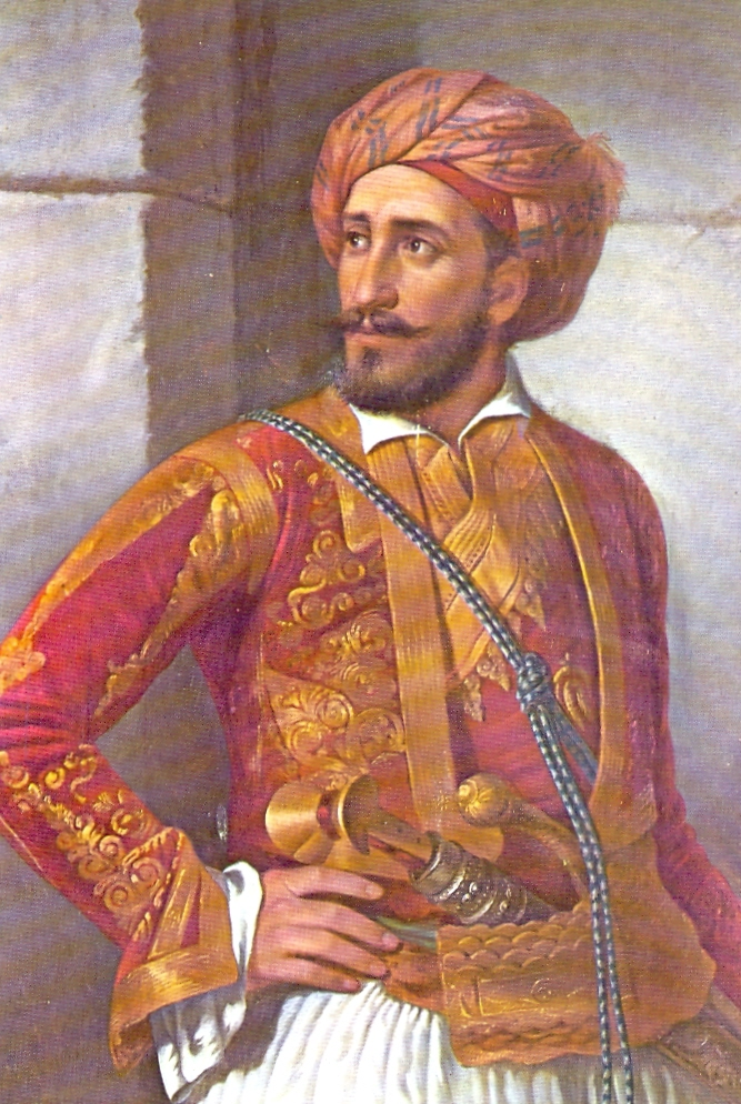 Ioannis Makrigiannis